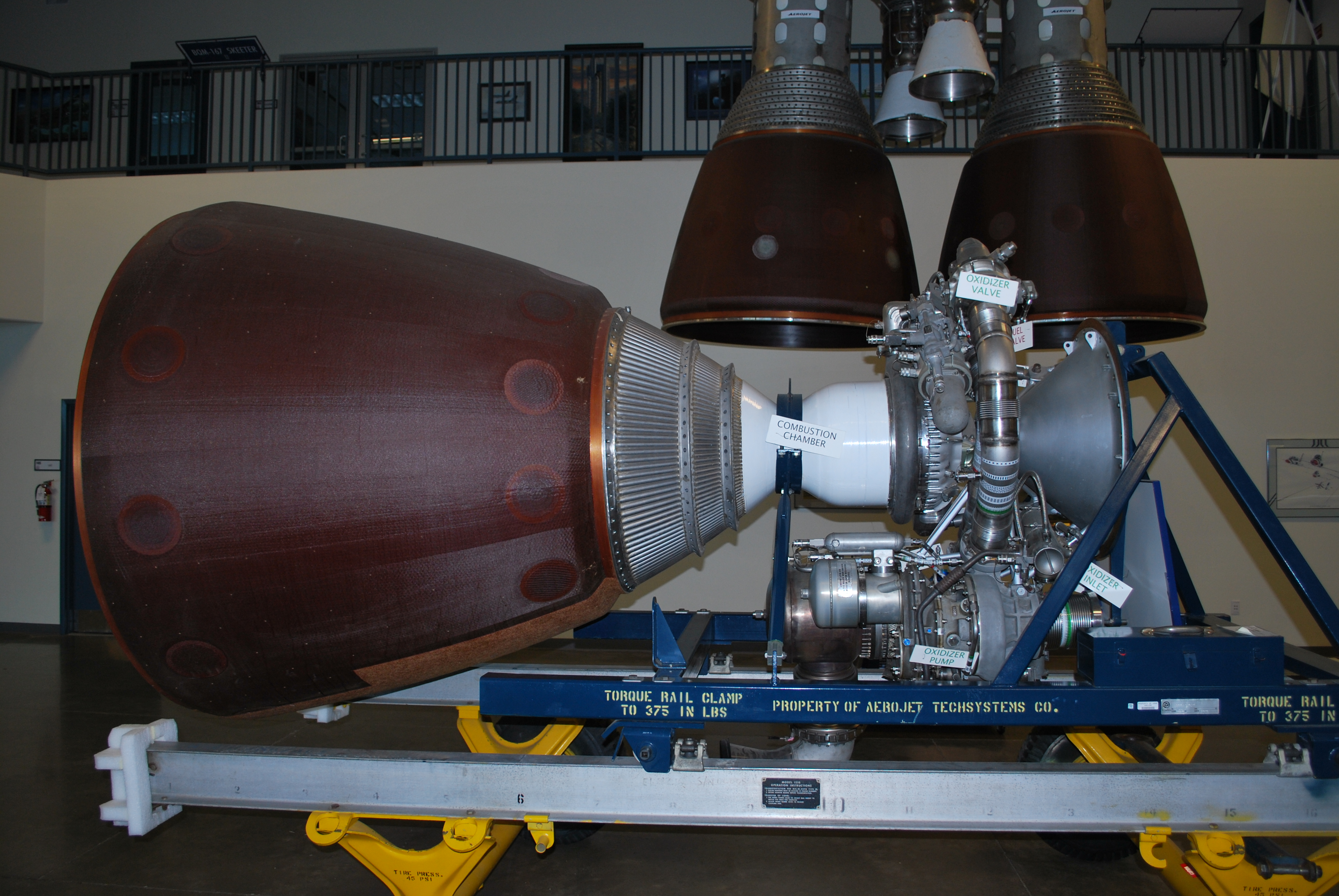 The LR91-AJ-11 engine powered the Titan IV second stage, provideing 105,000 pounds of thrust. The engine weighted aproximently 1,300 pounds.